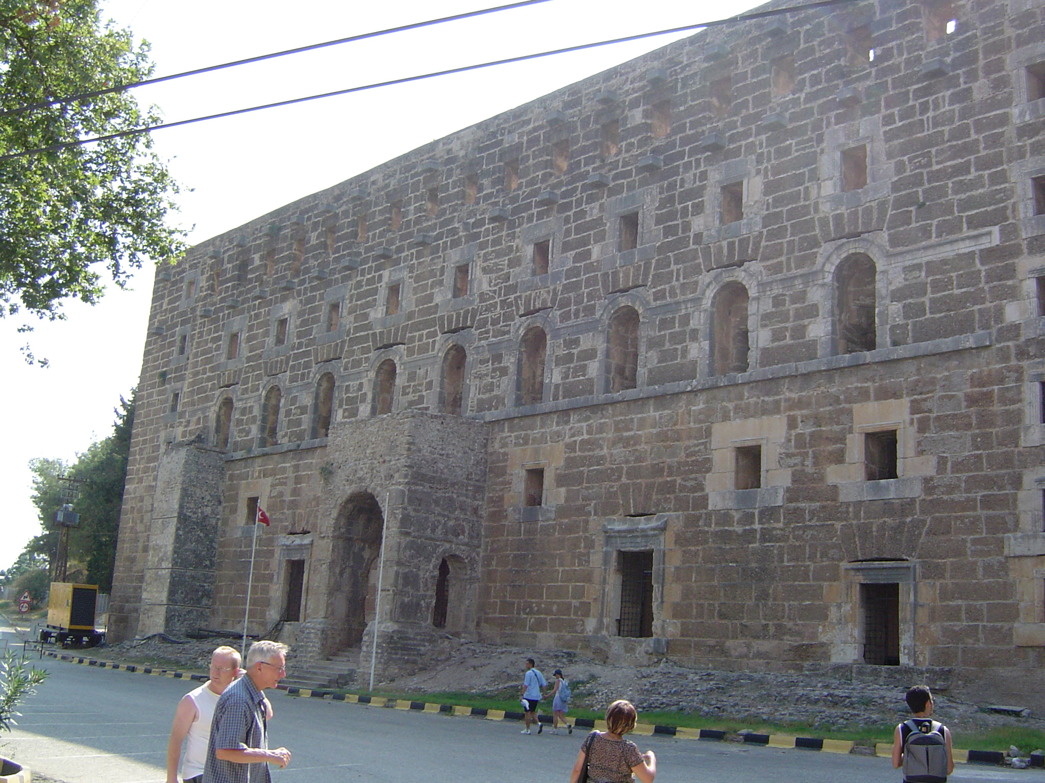 The Ancient Roman theater in Aspendos, Turkey.